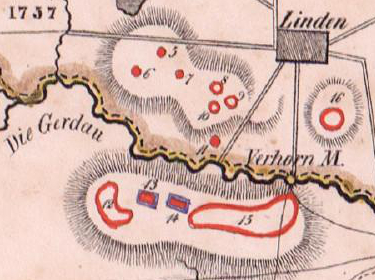 Prehistoric tombs near Linden